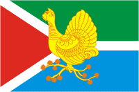 Sosnogorsk (Komia), flag